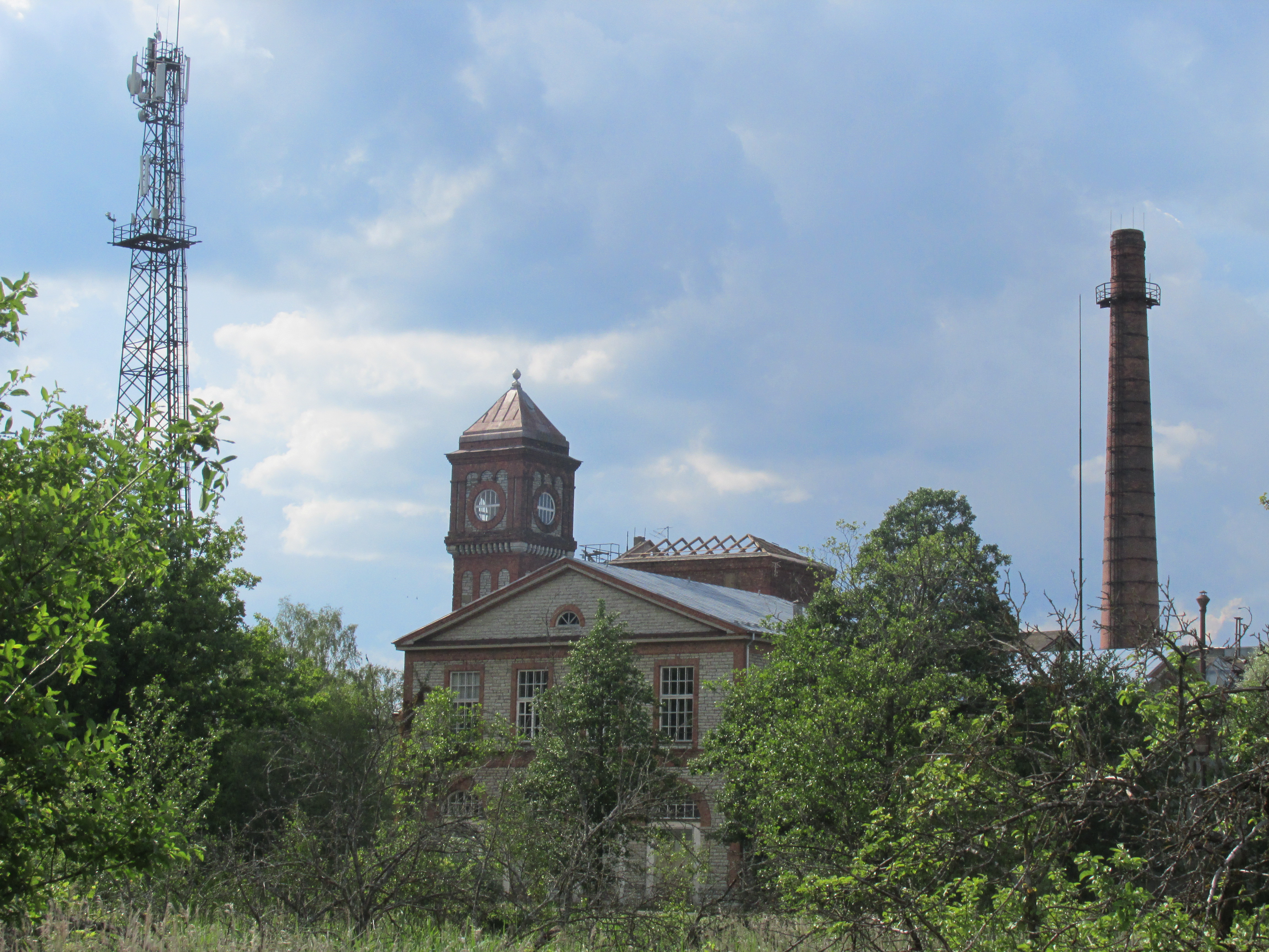 Ellamaa power plant